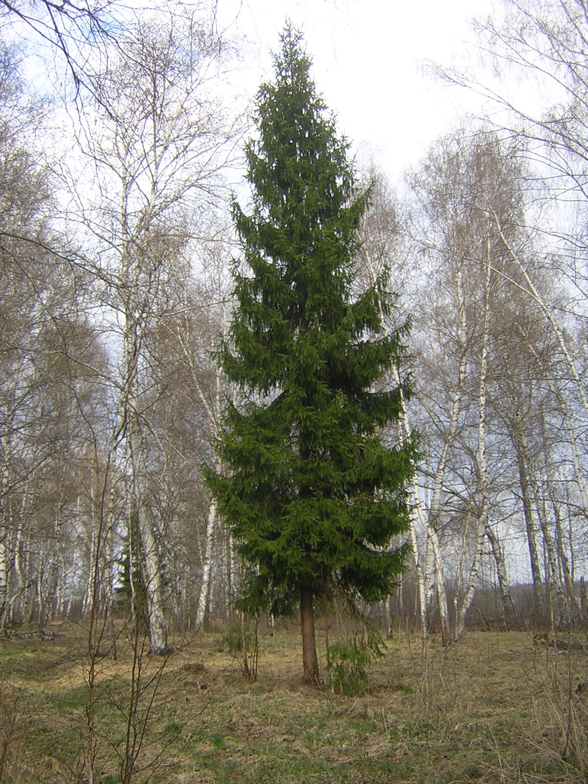 Picea abies, single tree. Russia, Ivanovo District, 56 32 N, 41 34 E.